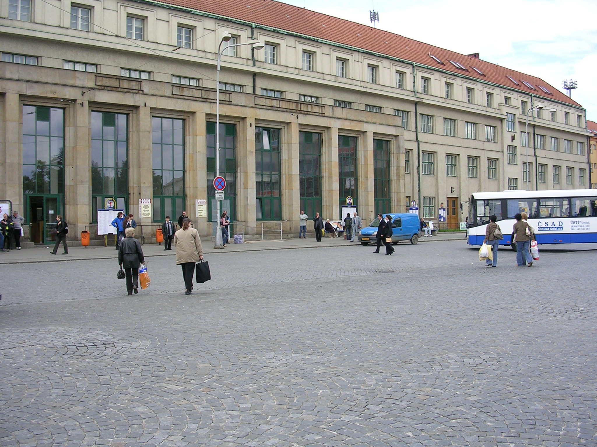 A bus station near the main train station in Hradec Králové, the Czech Republic.